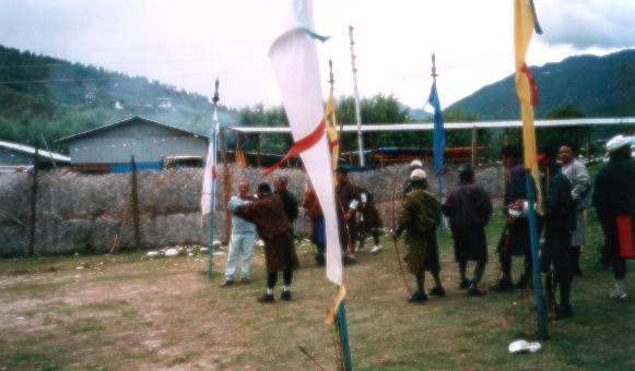 Archery competition in Bhutan